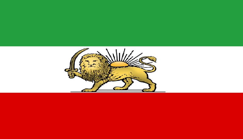 flag of iran with lion and sun